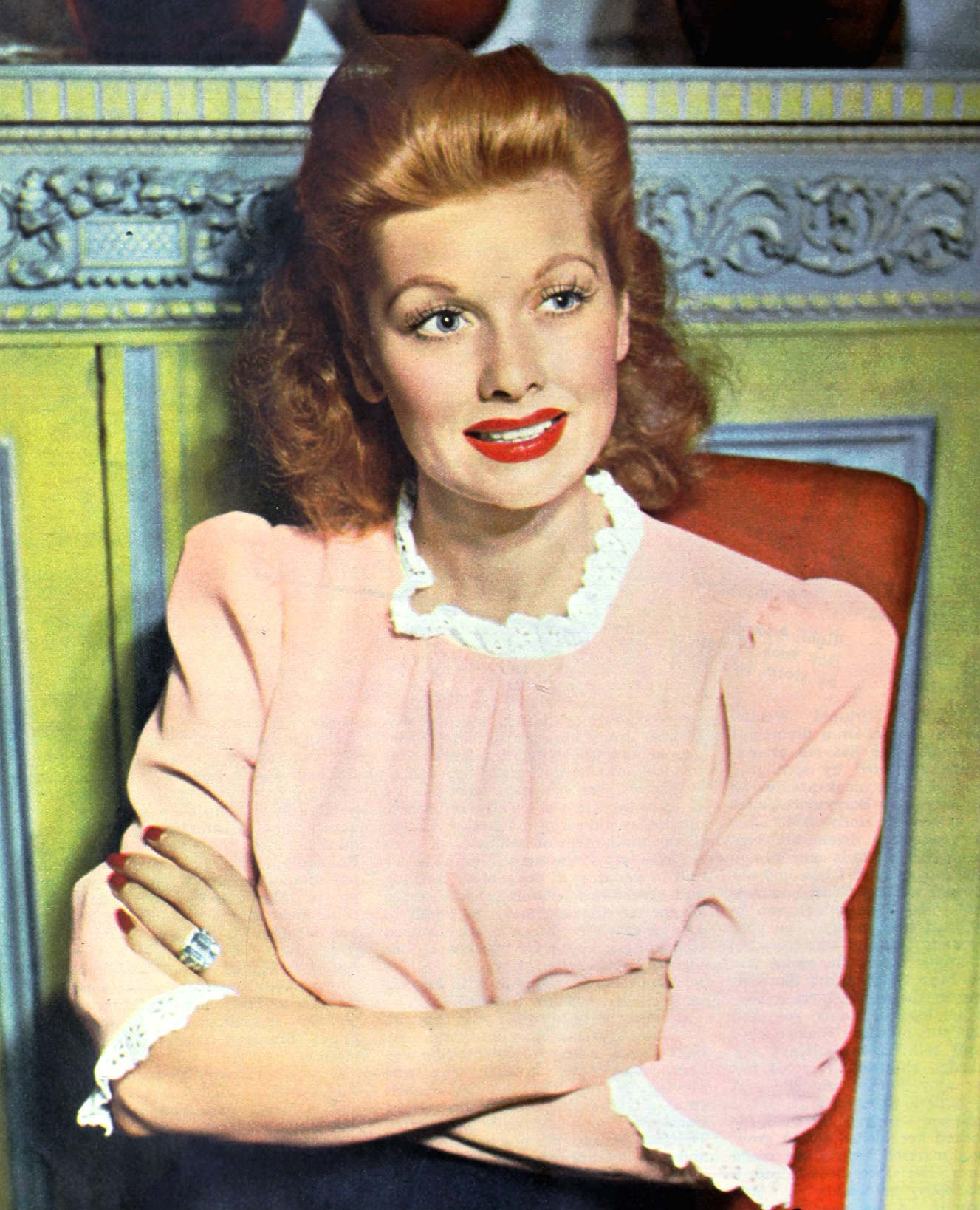 Photo of Lucille Ball in 1943.